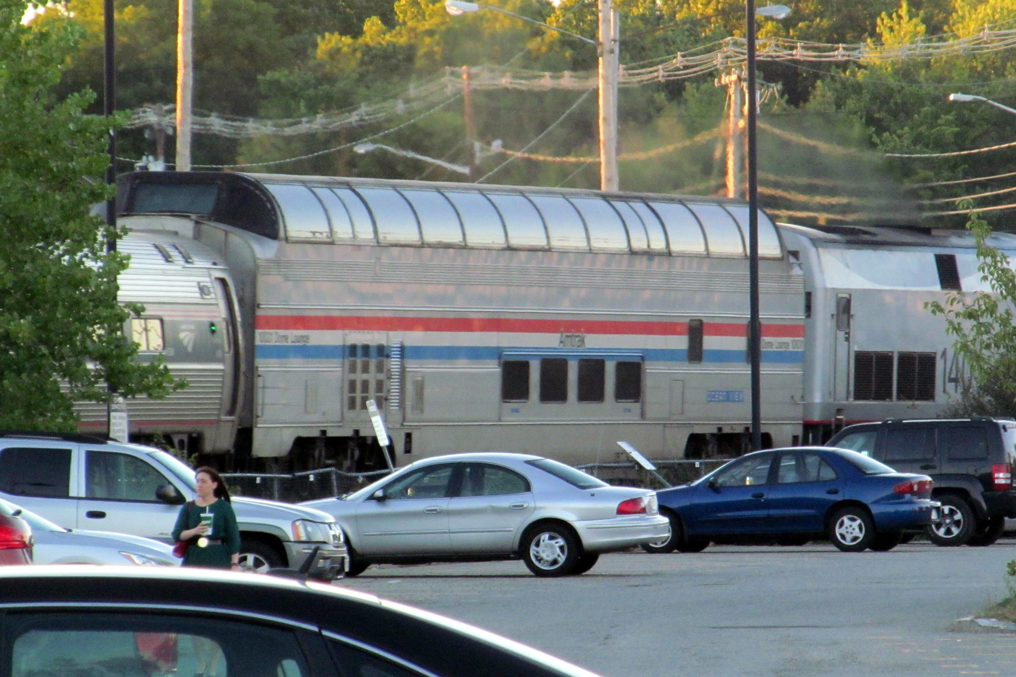 The Ocean View on the northbound Downeaster on the Wildcat Branch just north of Wilmington station in September 2016